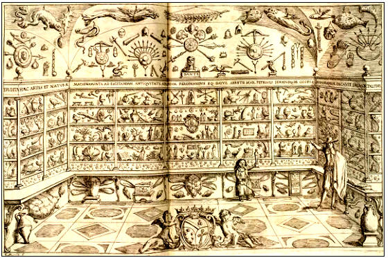 The collection of natural curiosities of Ferdinando Cospi (1606-1686), with Cospi to the right and the dwarf Sebastiano Biavati